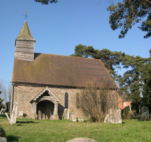 St Cosmas and St Damian, Stretford, near to Stretford, Herefordshire, Great Britain. The charming exterior belies the fantastic woodwork within. A real gem, in my view. Redundant, but well cared for.